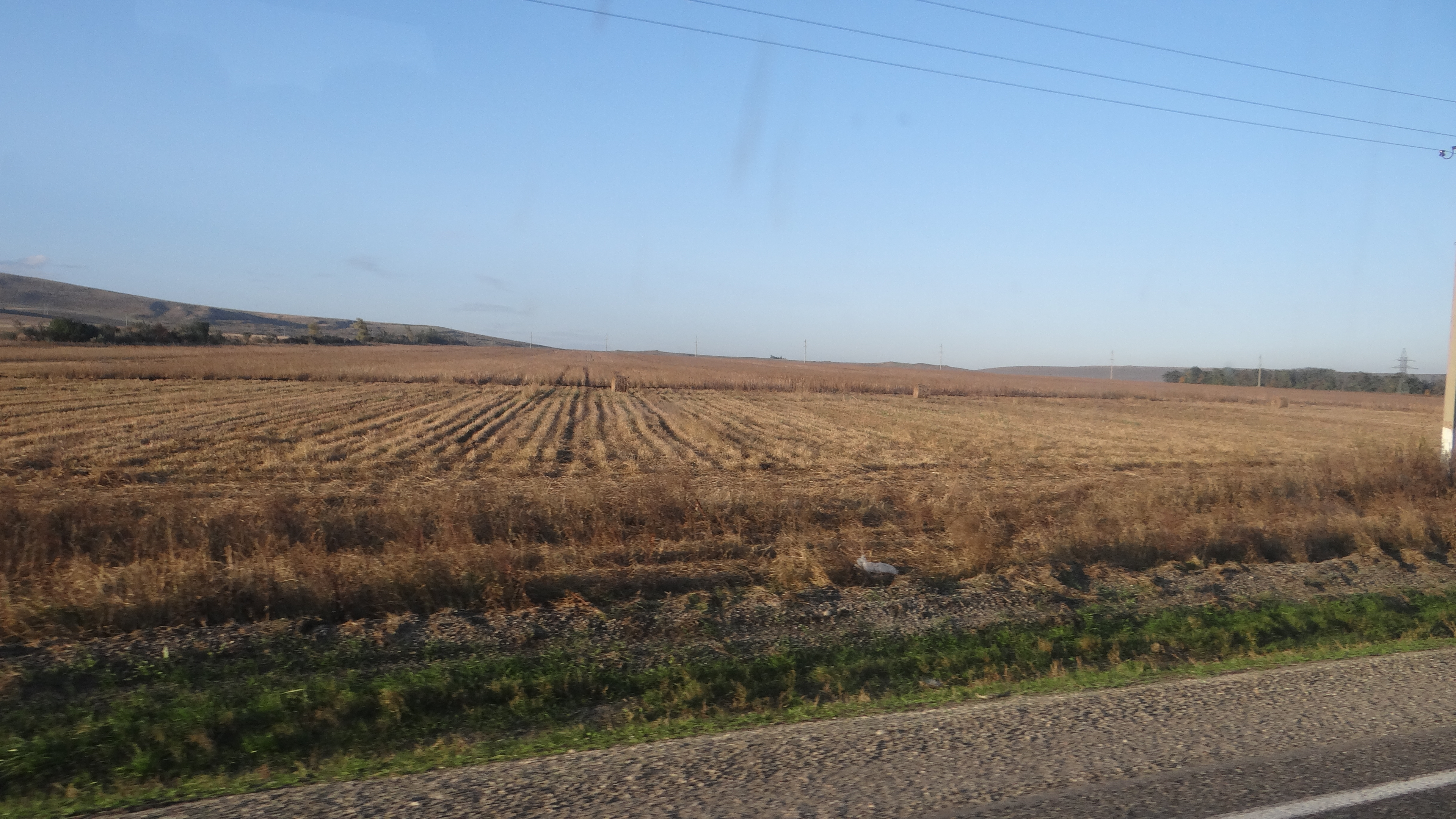 Prikubansky District, Karachay-Cherkessia, Russia